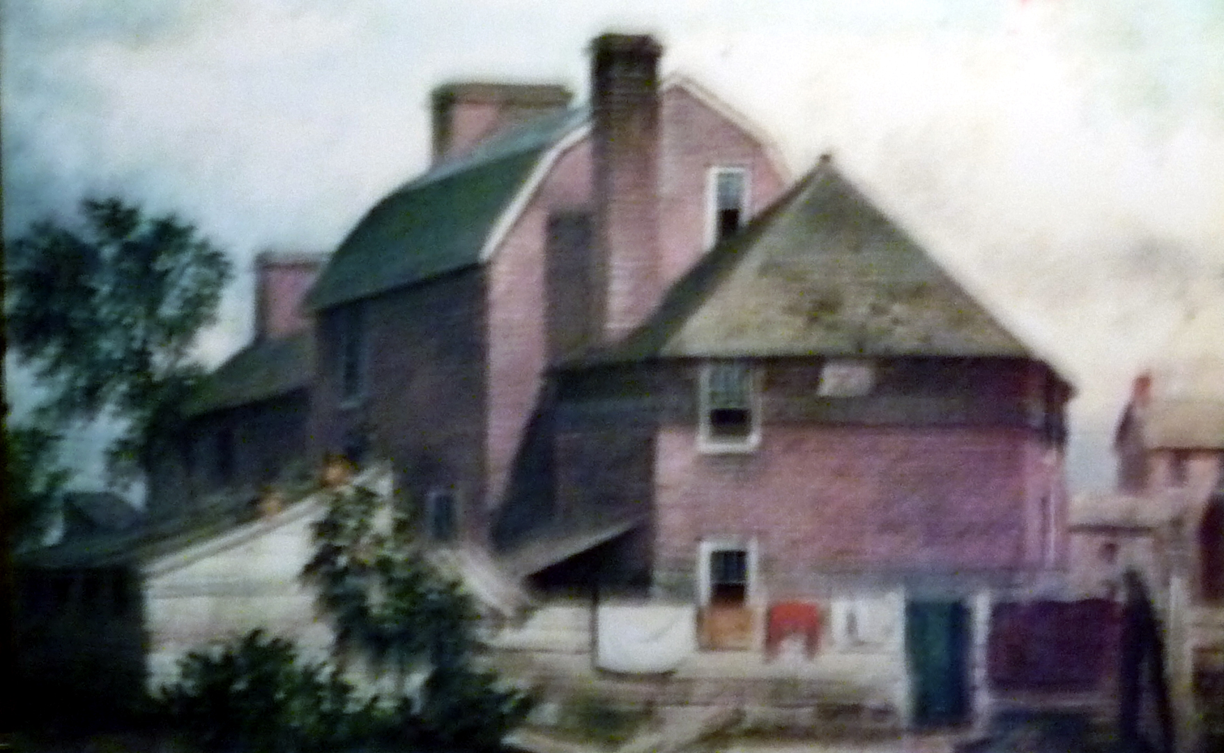 Reconstruction of Fort Pitt Blockhouse view in 1832.